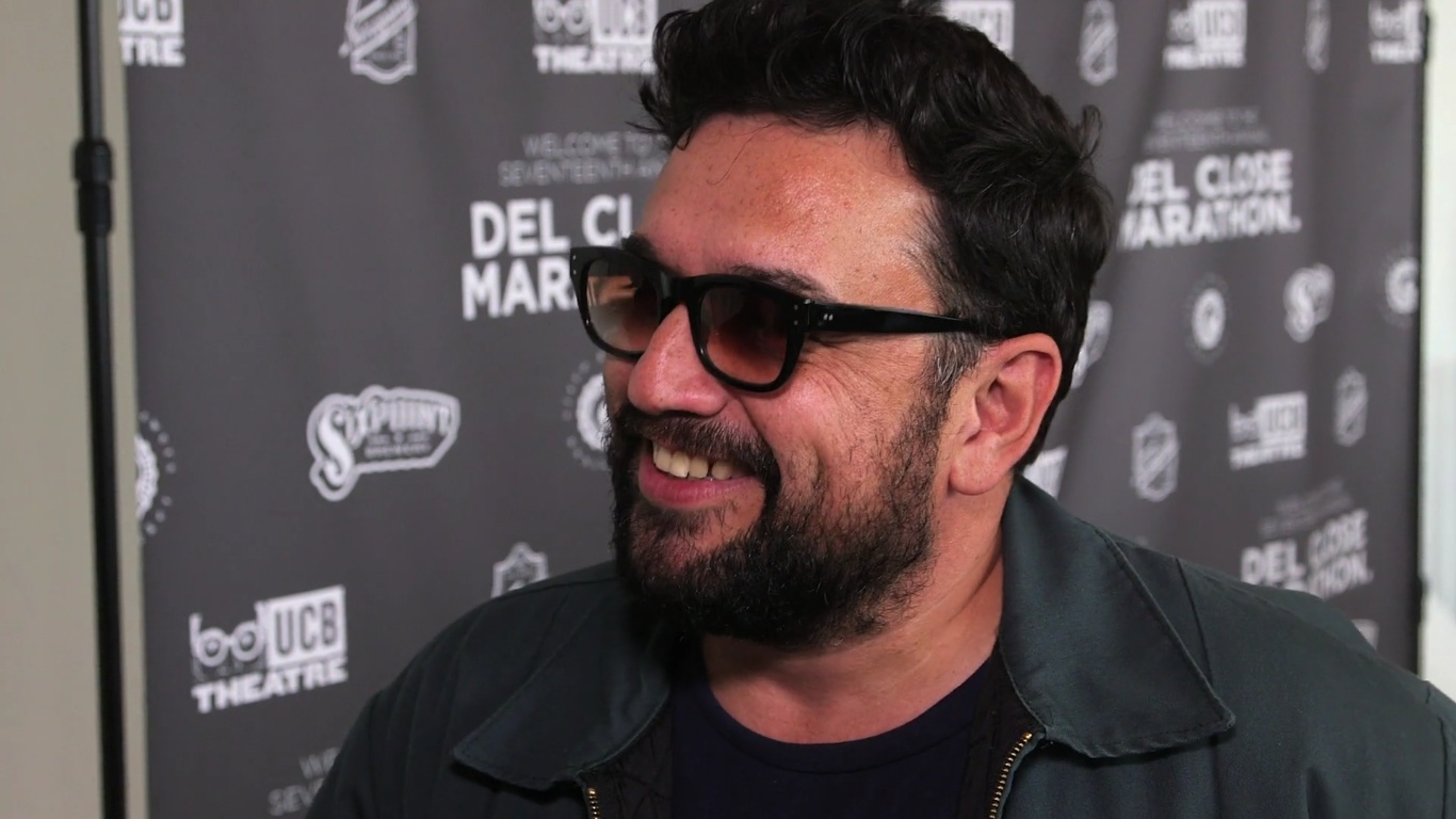 Comedian Horatio Sanz at the annual Del Close Marathon in New York City